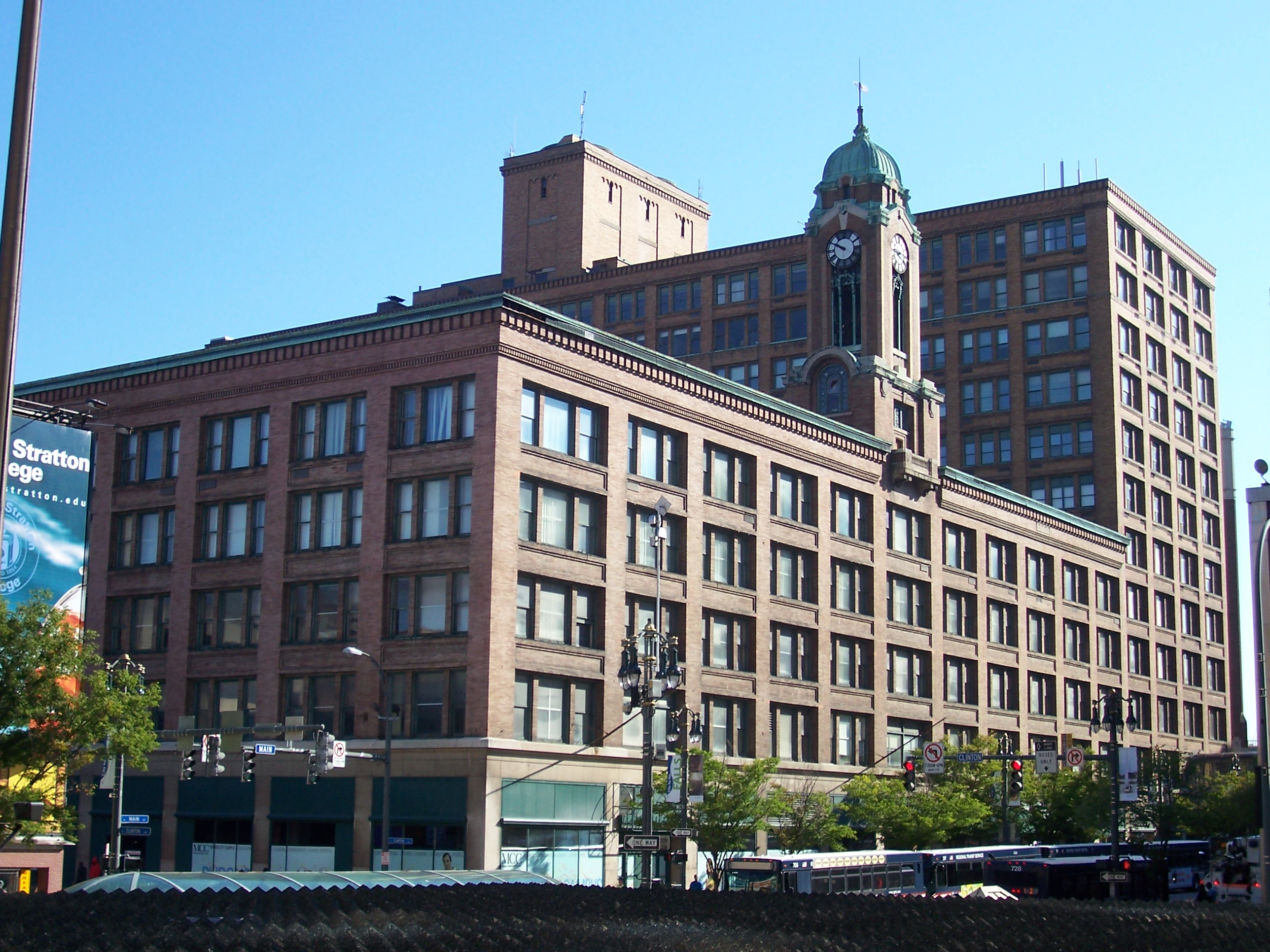 Sibley's, Lindsay and Curr Building viewed from the southwest